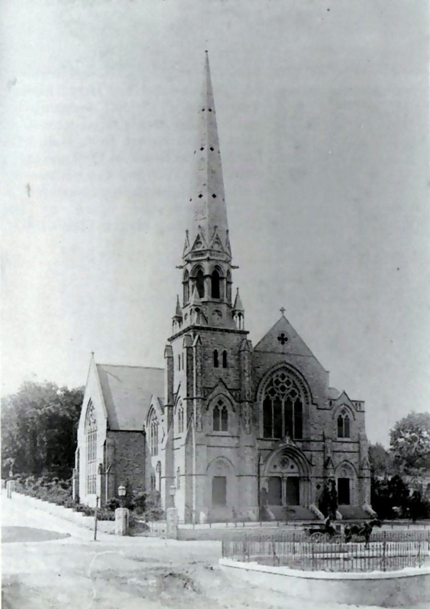 New Barnet Methodist Chapel, corner of Lyonsdown Road and Station Road opposite the triangle